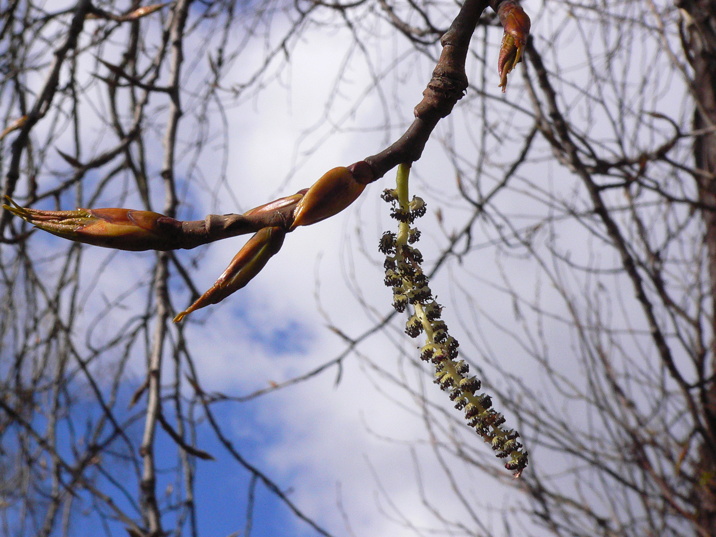 Populus trichocarpa male catkin and leaf buds. Sherwood, Oregon, USA. March 22, 2009